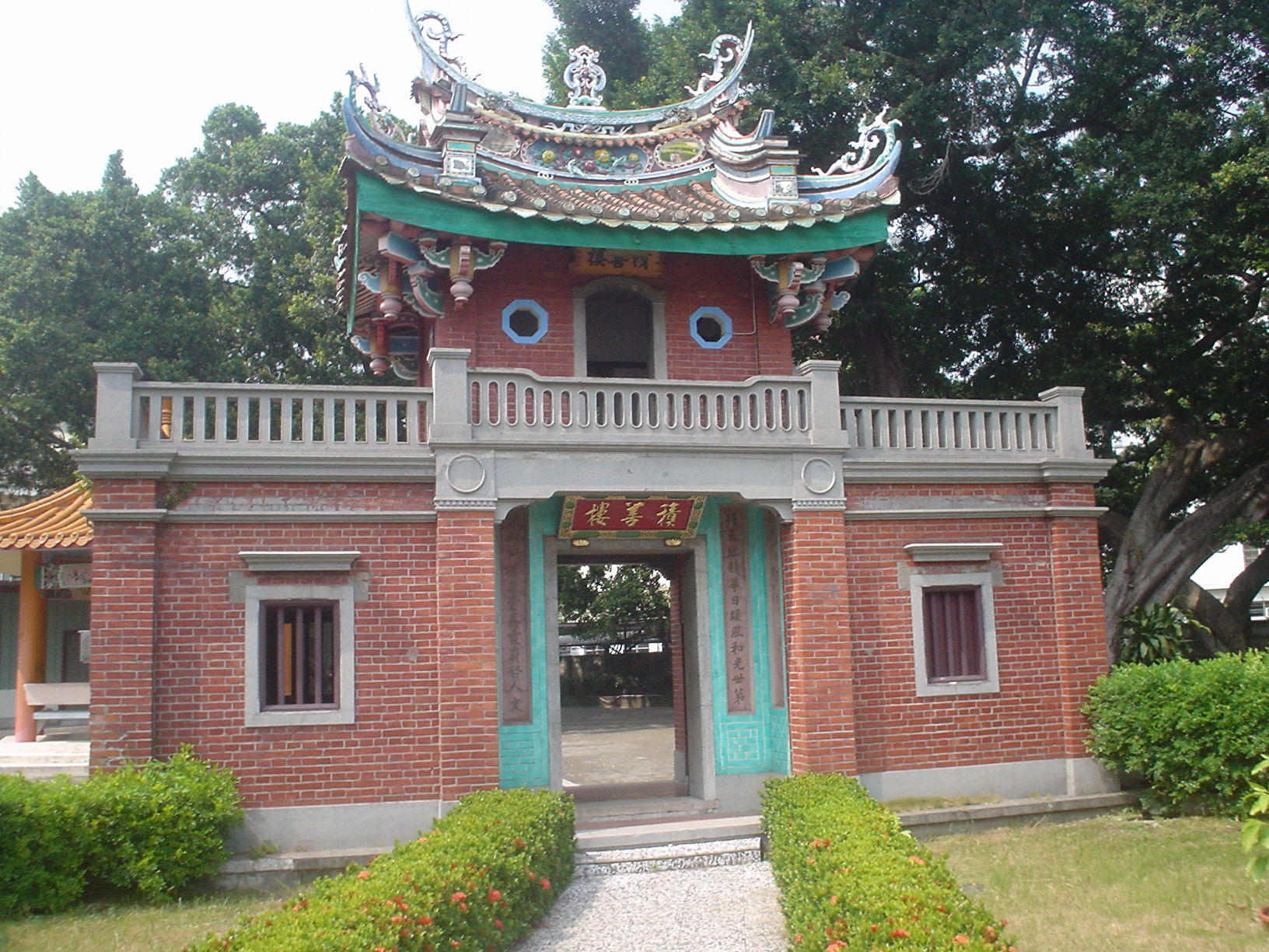 Historic Chishan Gate in Taichung City, Taiwan. Photo taken on October 11, 2006.